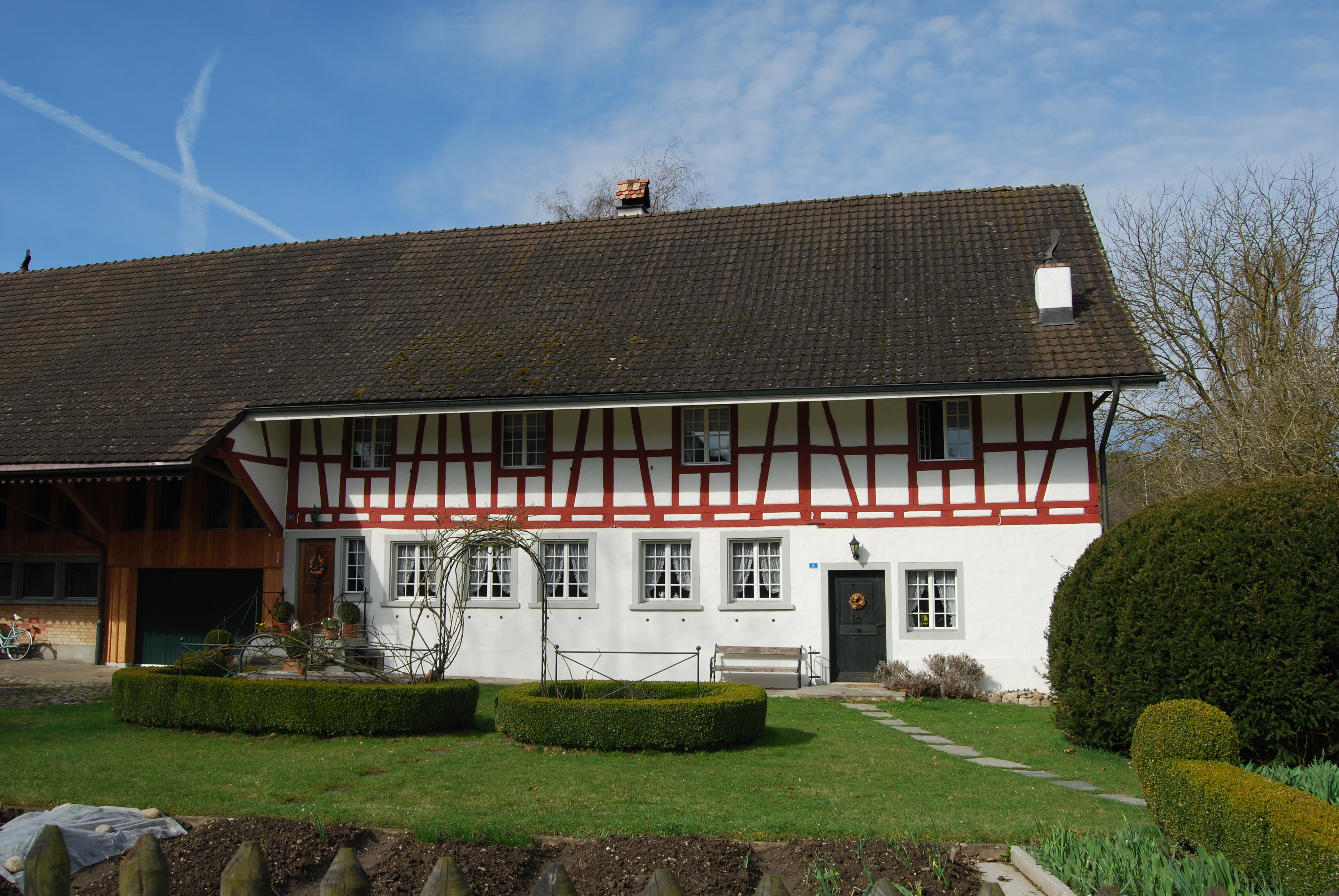 Timber framing house at Bachs, canton of Zürich, SwitzerlandEsperanto: Faktrabdomo en Bachs, Kantono Zuriko, Svislando